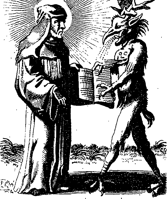 Fleuron from book: The praise of folly. Made English from the Latin of Erasmus. By W. Kennet, of S. Edm. Hall, Oxon. late Lord Bishop of Peterborough. Adorn'd with forty-eight copper-plates, including the Effigies of Erasmus and Sir Thomas More. All neatly engraved from the designs of the celebrated Hans Holbeine. To which is prefix'd, a preface by the translator.